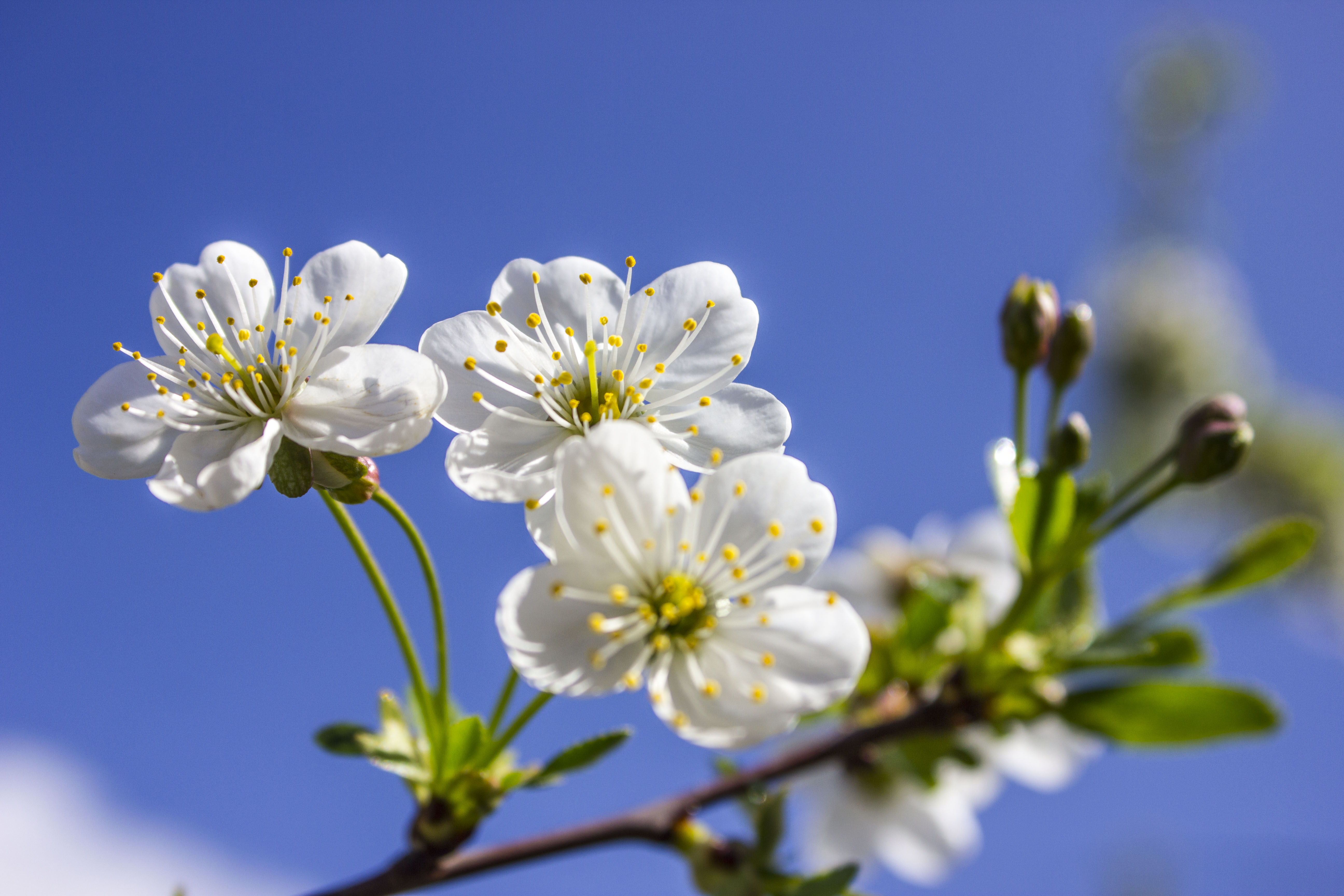 Cherry flowers in Yerevan